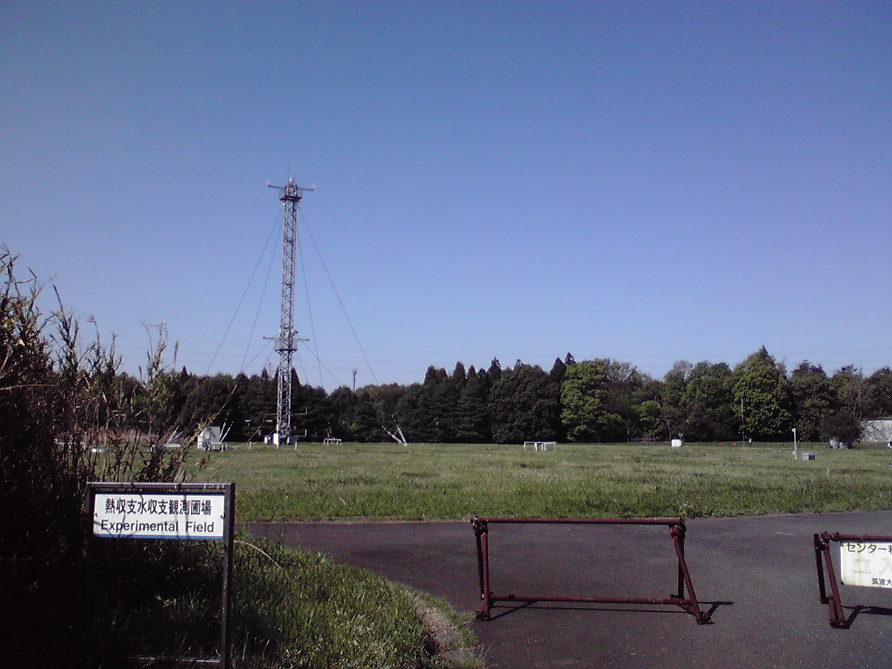 This is the experimetal feild of Terrestrial Environment Research Center (TERC), University of Tsukuba.